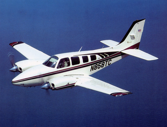 A Baron 58TC in flight